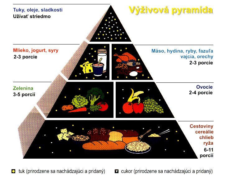 food pyramid